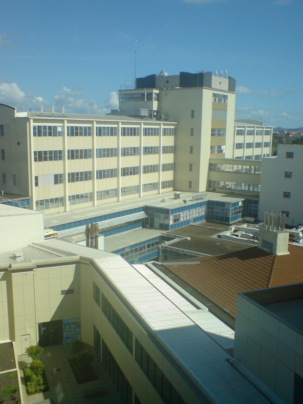 Looking west out of one of the central buildings of the Middlemore Hospital in Auckland, New Zealand.